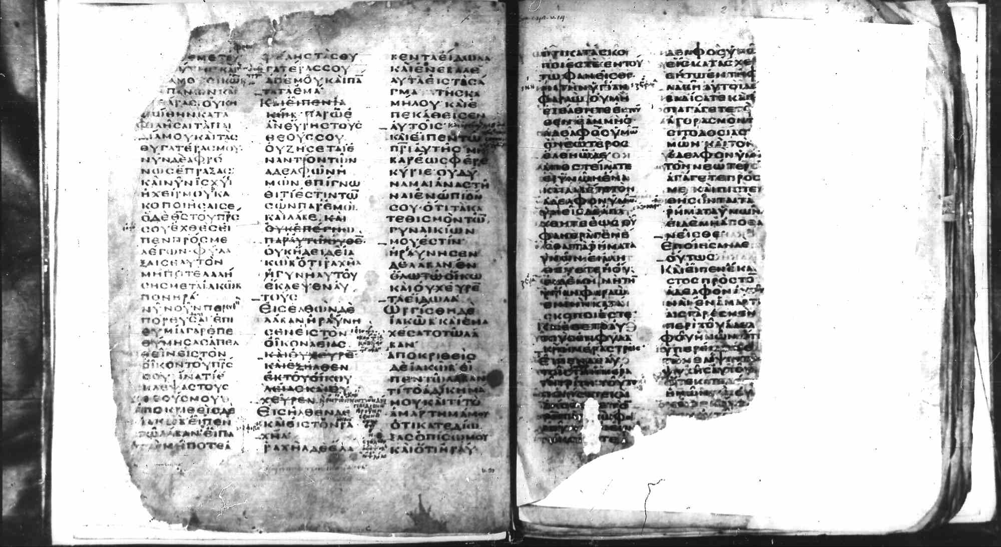 Codex Ambrosianus A 147, early 5th century